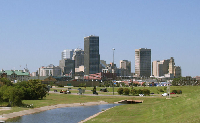 Oklahoma City Skyline from I-35